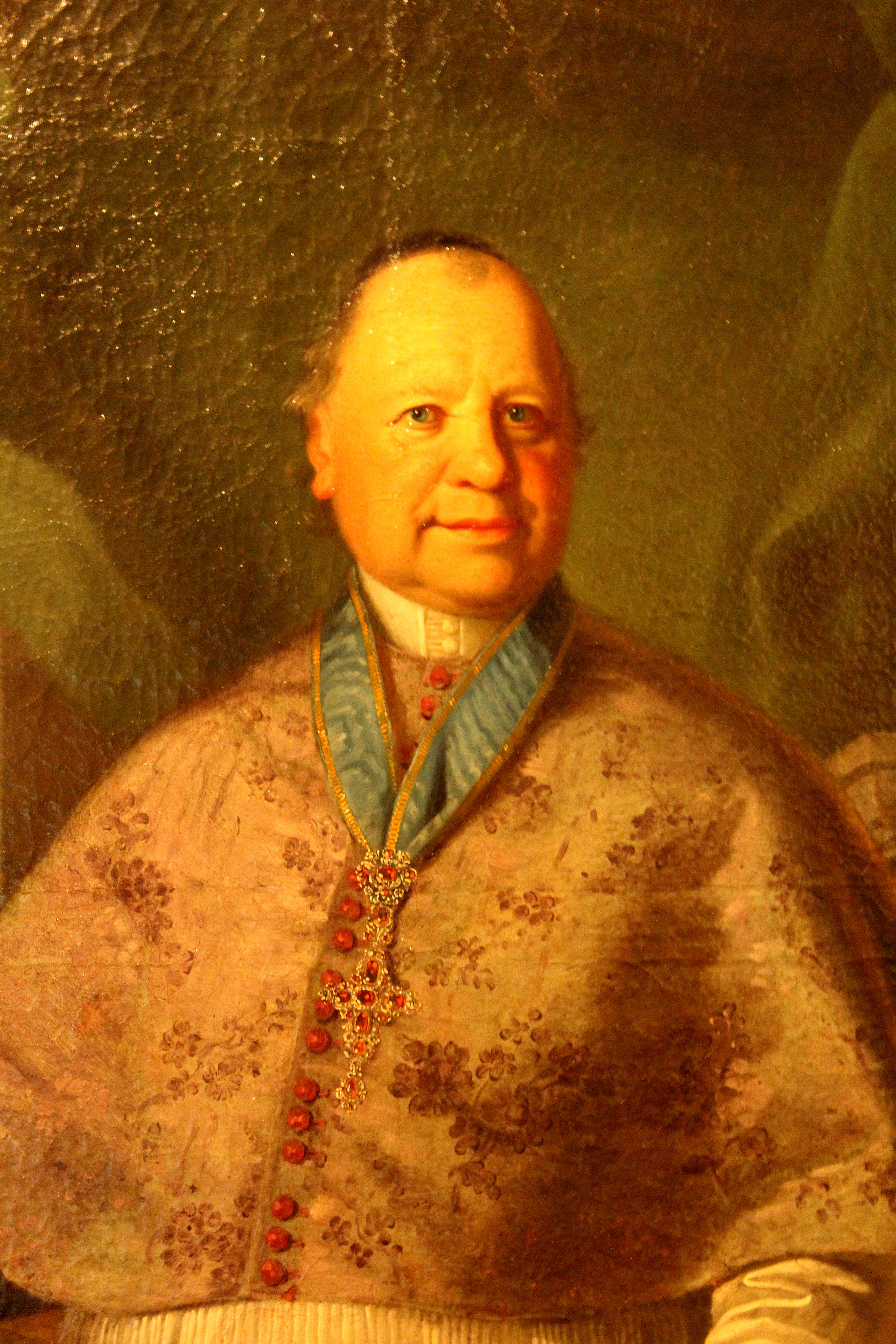 Würzburg, Mainfränkisches Museum, Conrad Geiger, portrait Mauritius Schmitt